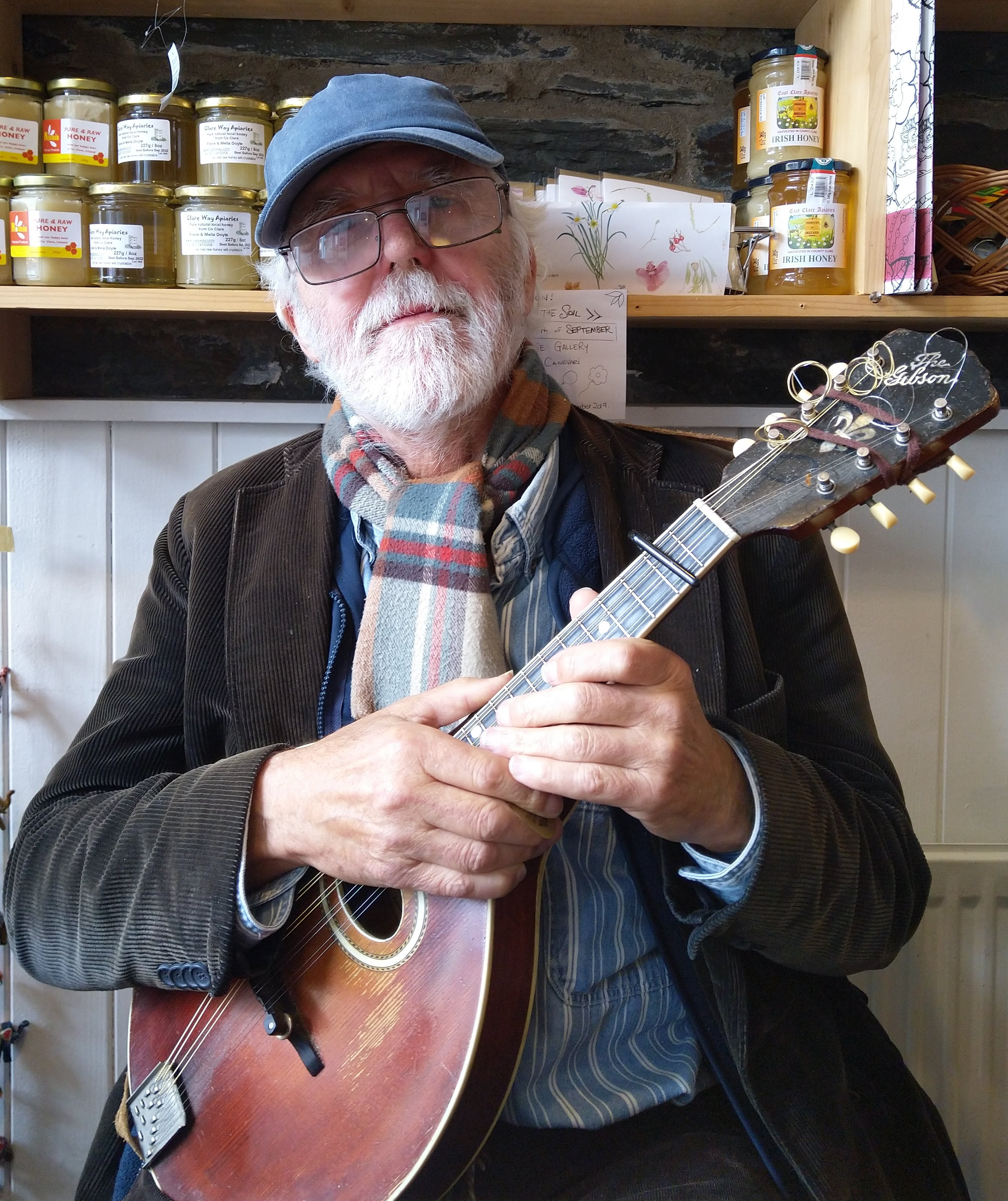 Musician Johnny Moynihan with his pre-war Gibson mandolin, taken in Ennistymon, County Clare, Ireland